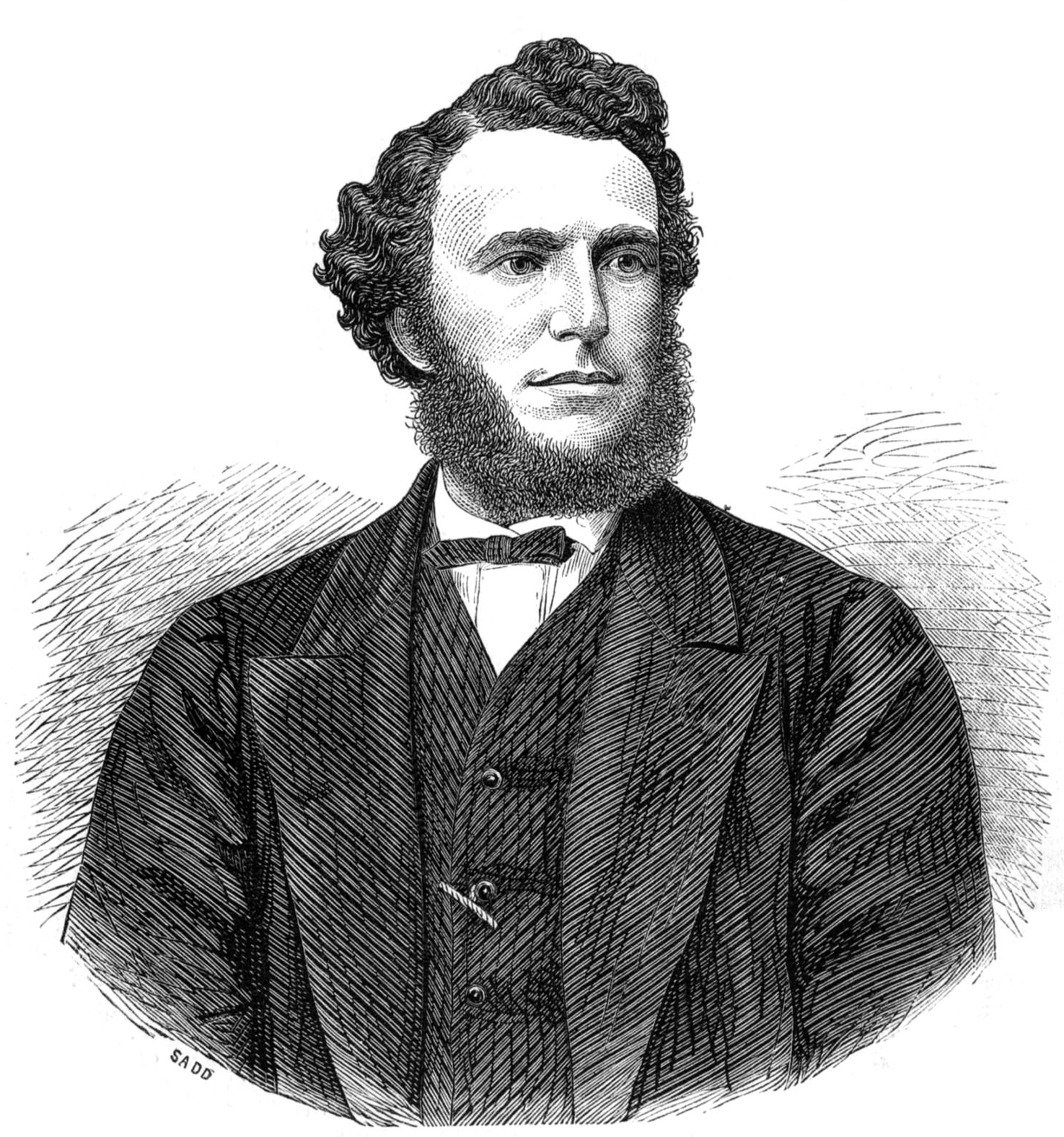 Portrait of William Wilson (1834–1891)